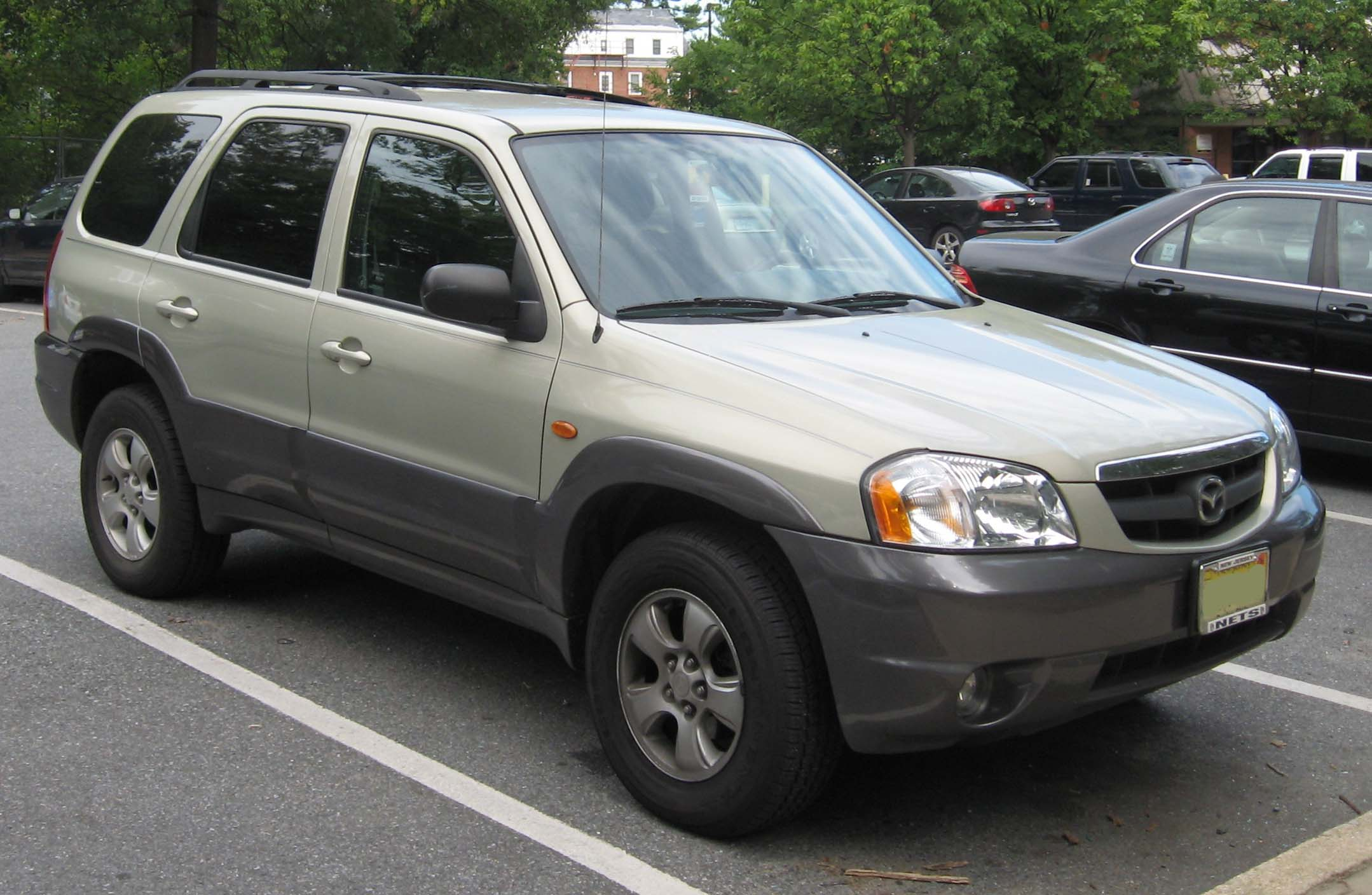 2001-2004 Mazda Tribute photographed in College Park, Maryland, USA.